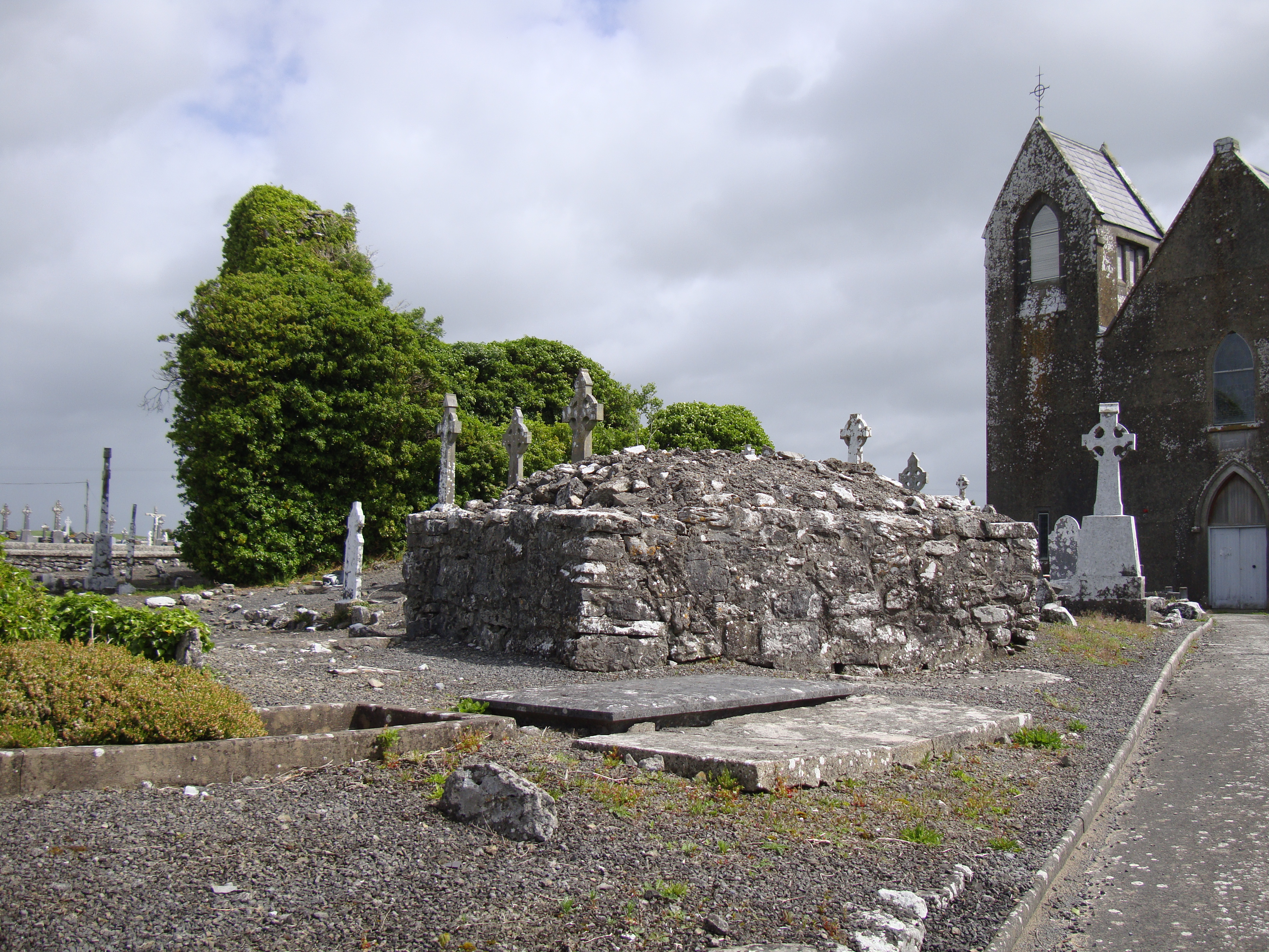 Photograph of the remains of Mayo Abbey, Co. Mayo, Ireland